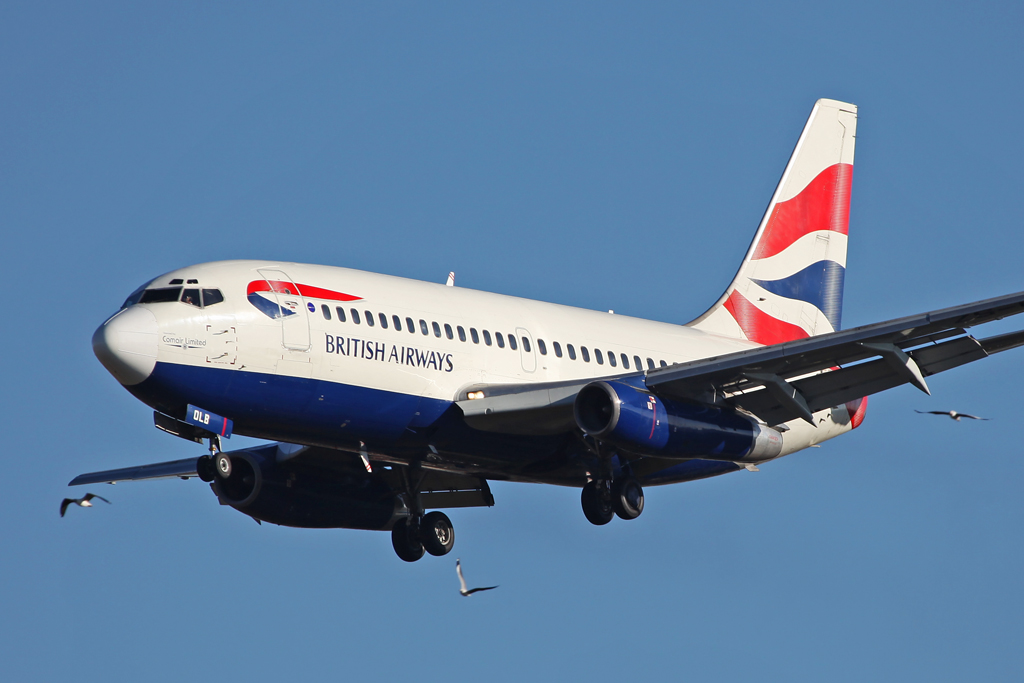 ZS-OLB B737-200 BA Comair JHB 140309